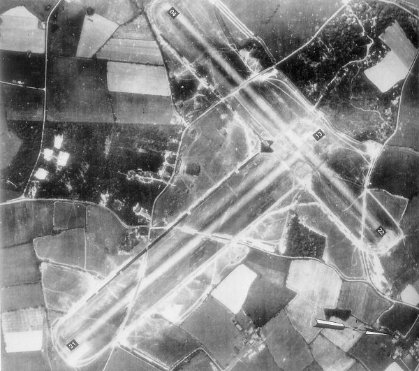 Aerial photograph of Kingsnorth ALG Airfield, England.